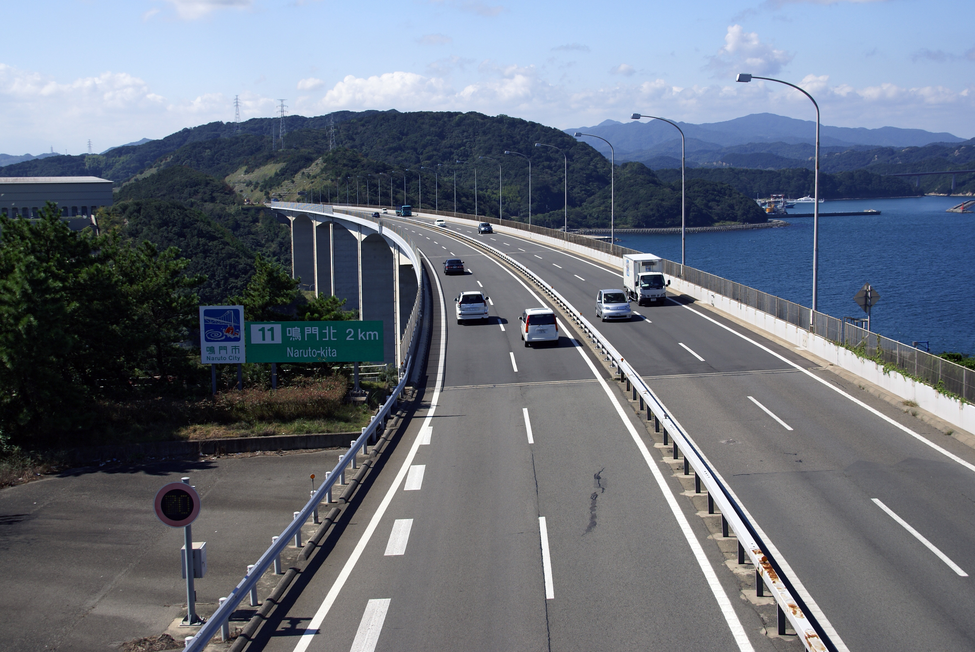 Kobe-Awaji-Naruto Expressway at Naruto, Tokushima prefecture, Japan